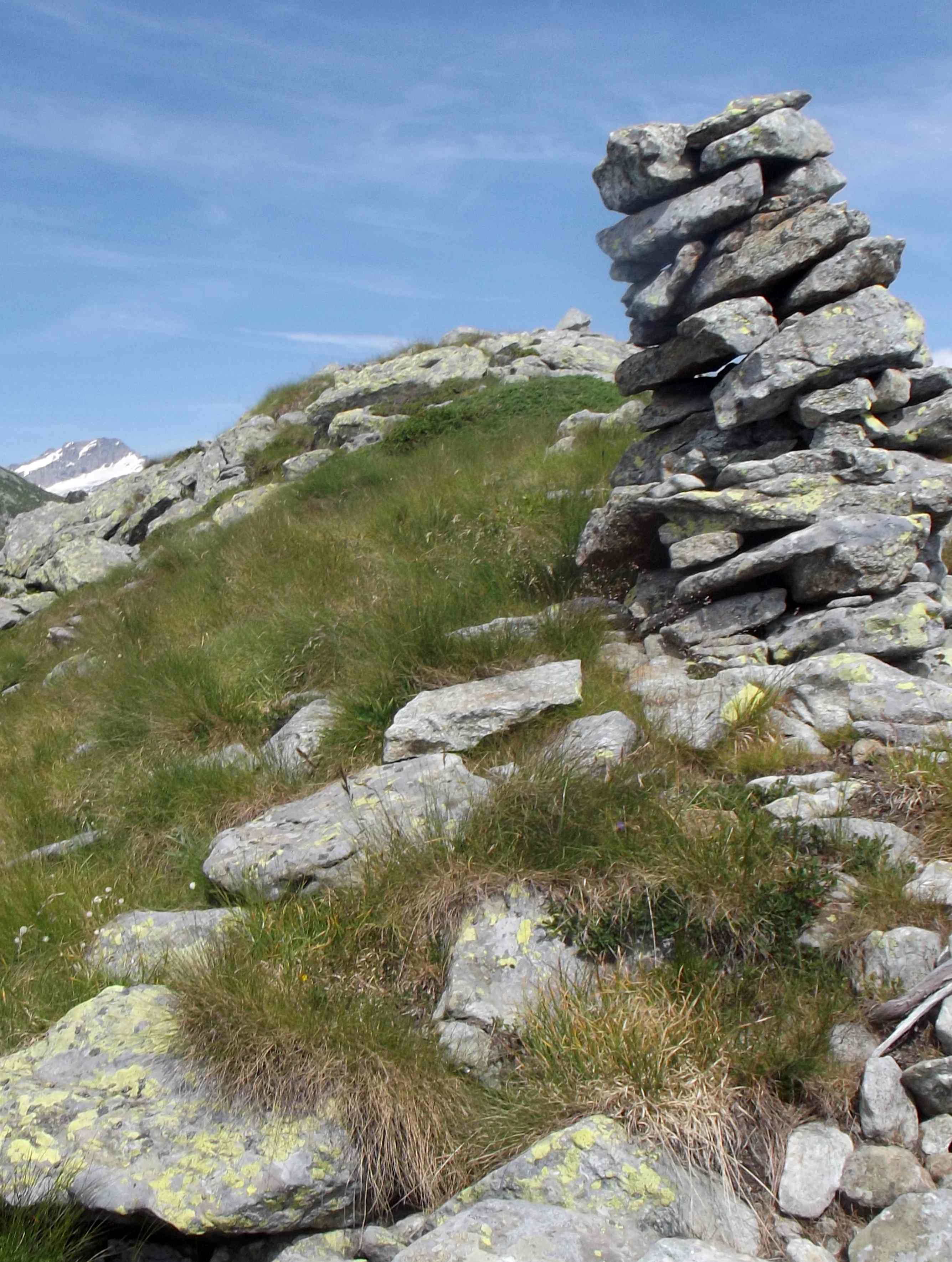 Monte Plu (Graian Alps, Italy): its summit cairn and, on the left, mount Levanna